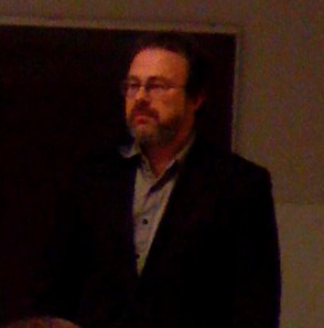 Heiki Valk, archaeologist from the University of Tartu on a meeting of Õpetatud Eesti Selts, where he became the president of it.